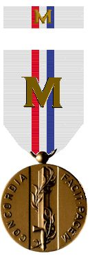 Medal for Multinational Peacekeeping with the "M" of the Memorial Sign for special missions in an international unit. The Netherlands